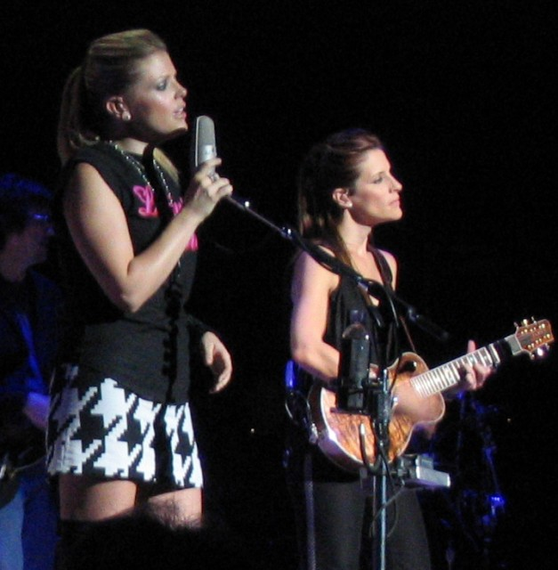 Natalie Maines and Emily Robison of the Dixie Chicks in concert at the Royal Albert Hall in London, England in September 2003...